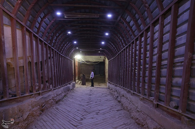 On Sunday, February 25, 2018, the Syrian Arab Army launched a massive campaign to liberate the eastern plutonium on the outskirts of Damascus, and eventually on April 25th, April 25, April 14, 2018, a proclamation of freedom and full cleansing of insurgents was announced.